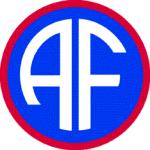 Allied Force Headquarters shoulder sleeve insignia